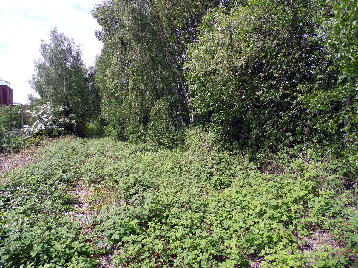 Despite the overgrowth and the main bulk of the station area being demolished, there is a surprising amount of track left in situ, along with the bases of the support beams for the station building and platform.